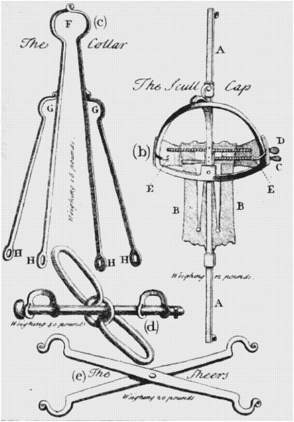 Instruments of torture used in the Marshalsea prison, London.